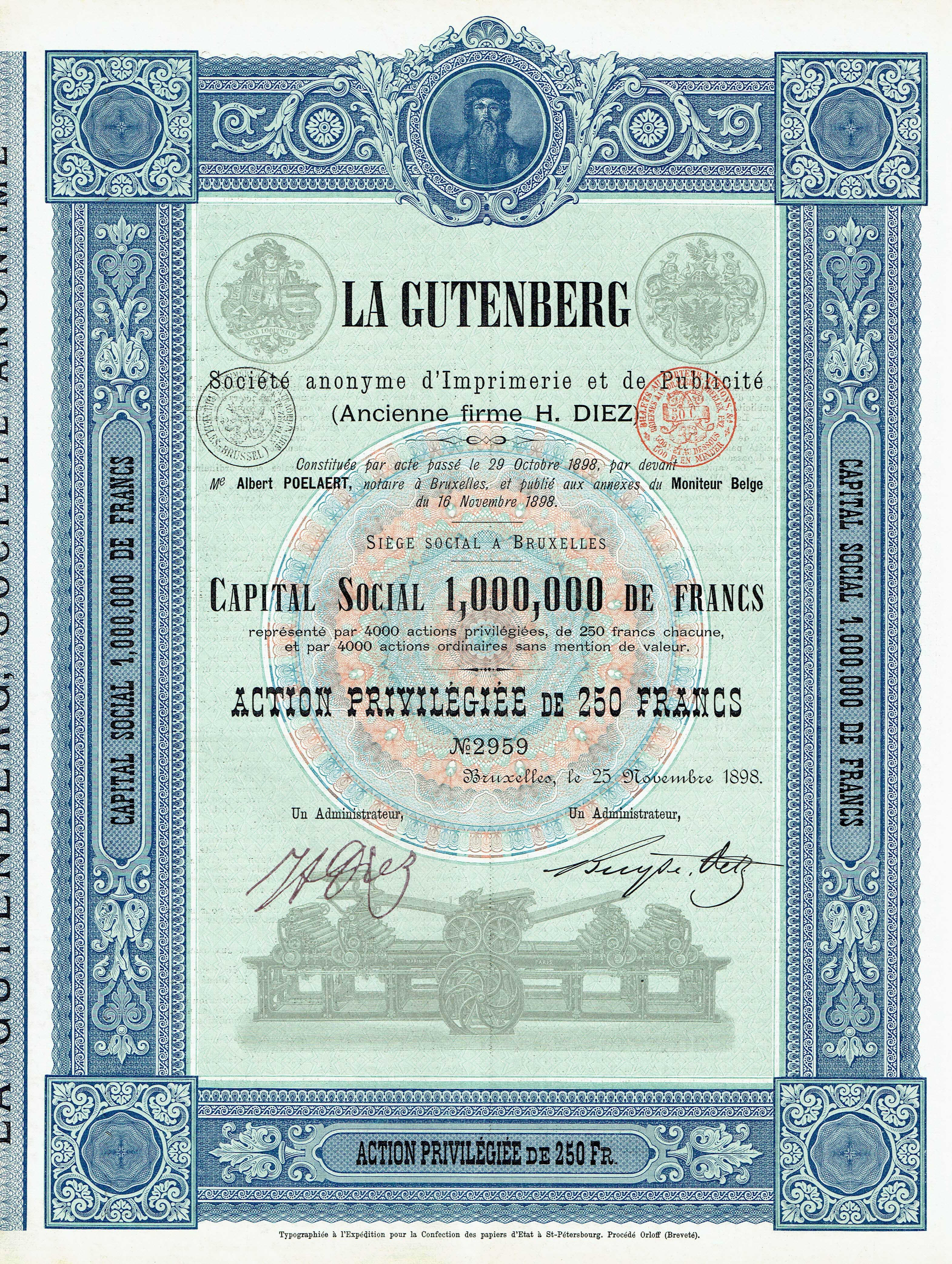 Share of the company La Gutenberg, issued 25. November 1898